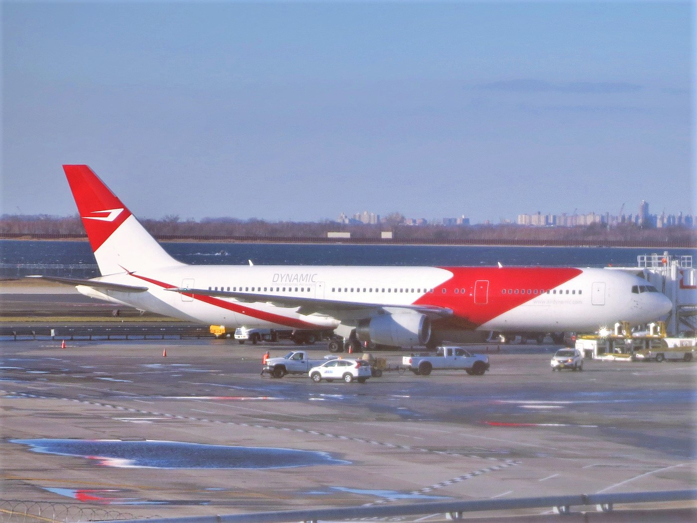 A Dynamic Airways Boeing 767-300ER is boarding passengers and cargo for a trip to CCS/SVMI.